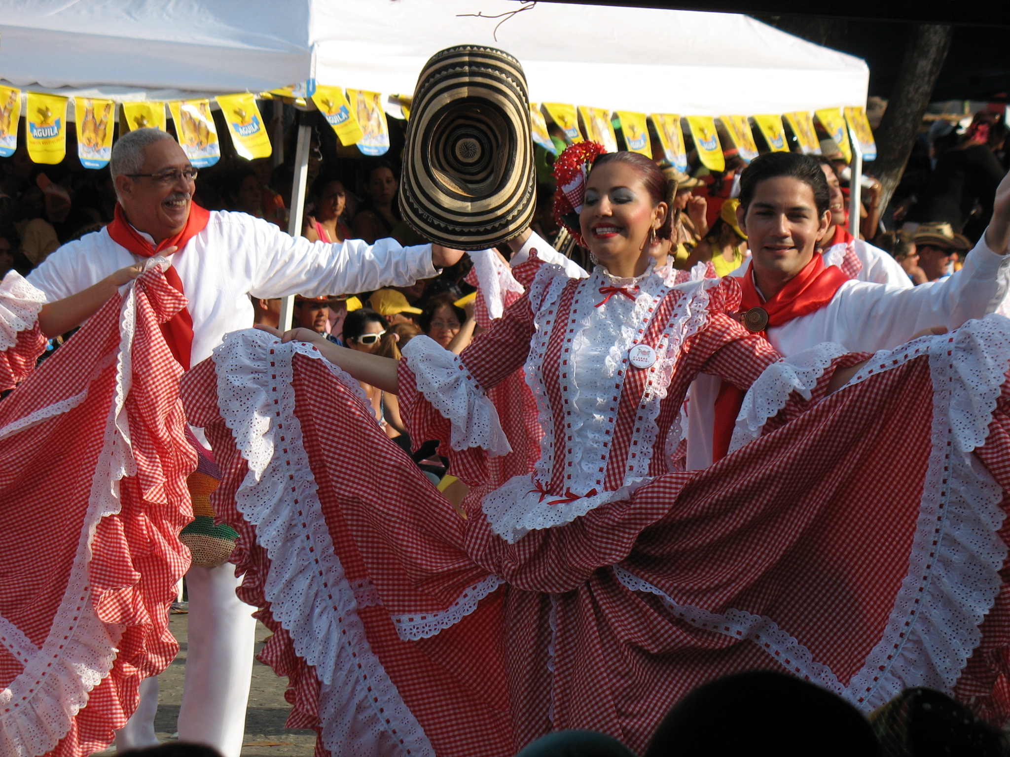 Cumbia dancers